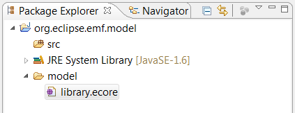 A Java project with an EMF model